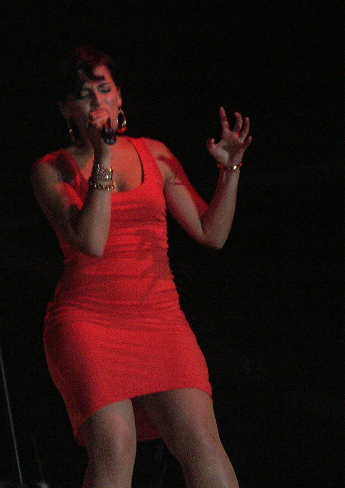 A live photo from the singer and songwriter Nelly Furtado on her Get loose open air tour in Wiesbaden, Germany